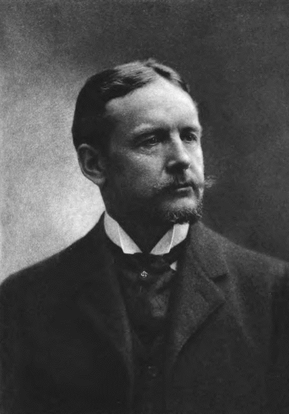 Carl Sofus Lumholtz.